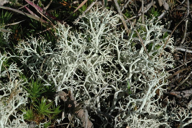 Picture taken in Commanster, Belgian High Ardennes . Species: Cladonia ciliata